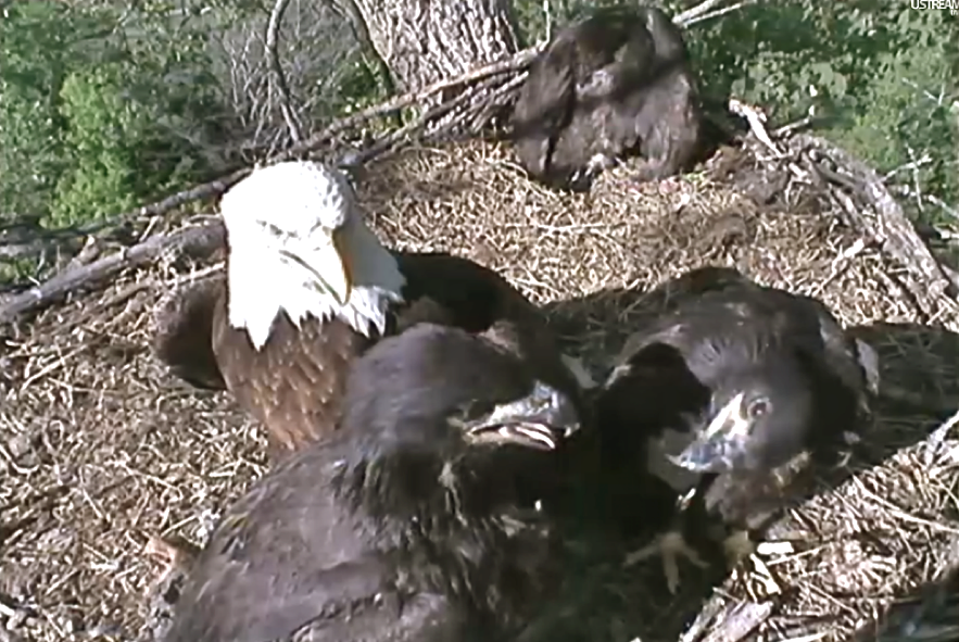 Screenshot from Ustream.tv Decorah eagles playing in nest May 2012